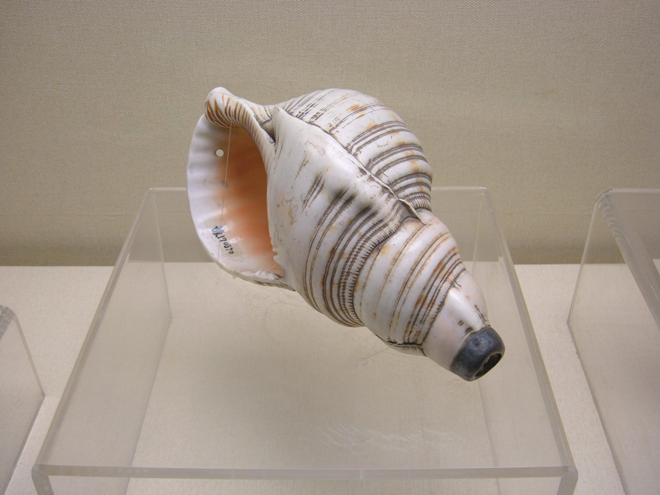 Conch shell used as a horn by the Qing Dynasty military on display in the the Forbidden City in Beijing, PRC.